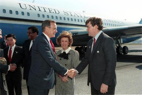 Vice President Bush arrives San Francisco, CA, for a campaign rally. 14 Sep 88